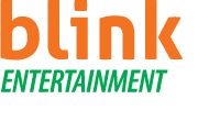 Official Logo for Blink Entertainment